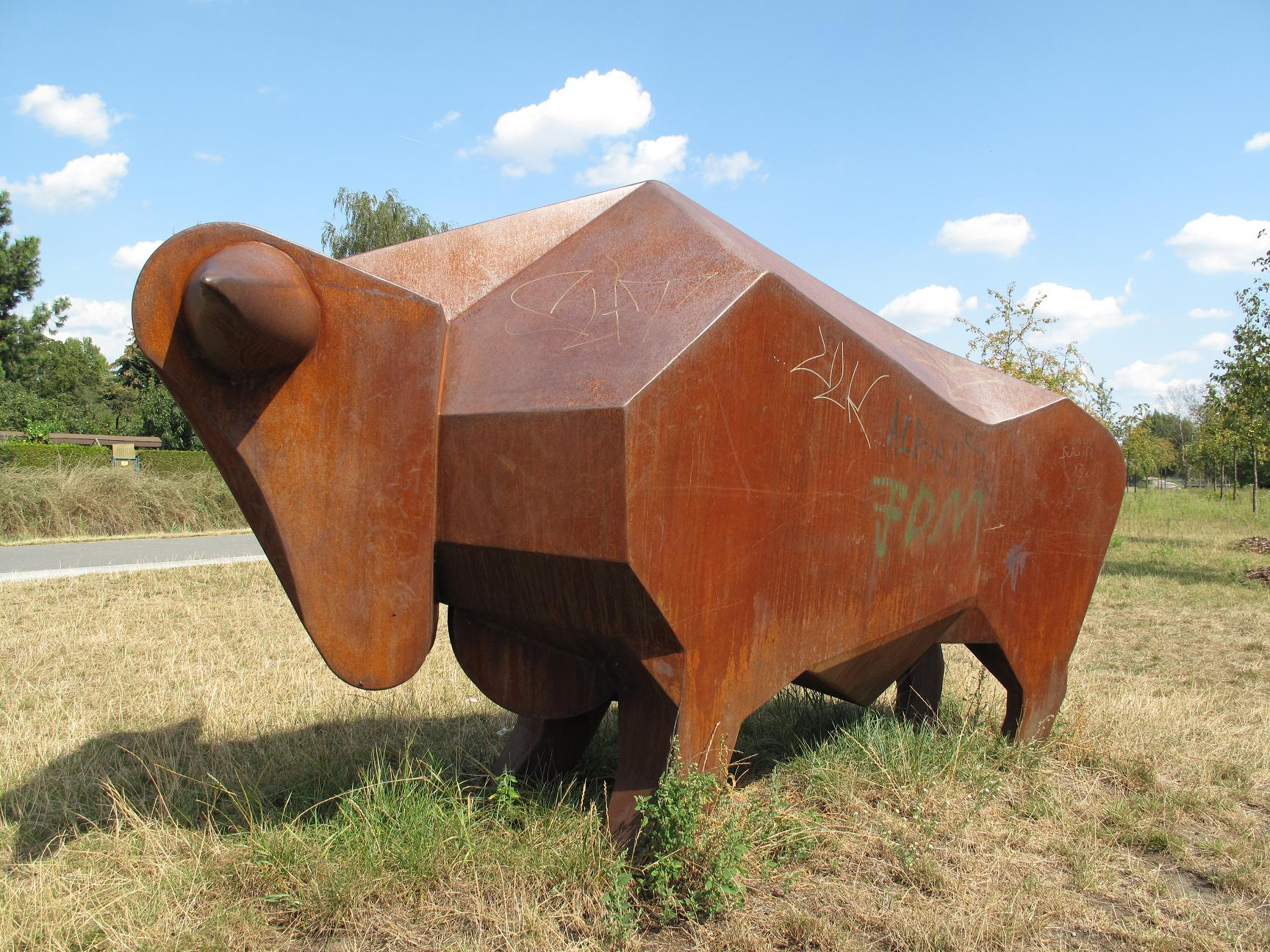 Sculpture Bullengraben-Bulle, created by Sebastian Kulisch in 2007. The Bullengraben (german for: bullditch) is a drainage channel to the river Havel in the localities Staaken, Wilhelmstadt and Spandau in the borough Berlin-Spandau, Germany. In 2007 there was opened the green space Bullengraben (german: „Grünzug Bullengraben“) along the 4,5 kilometre long ditch.